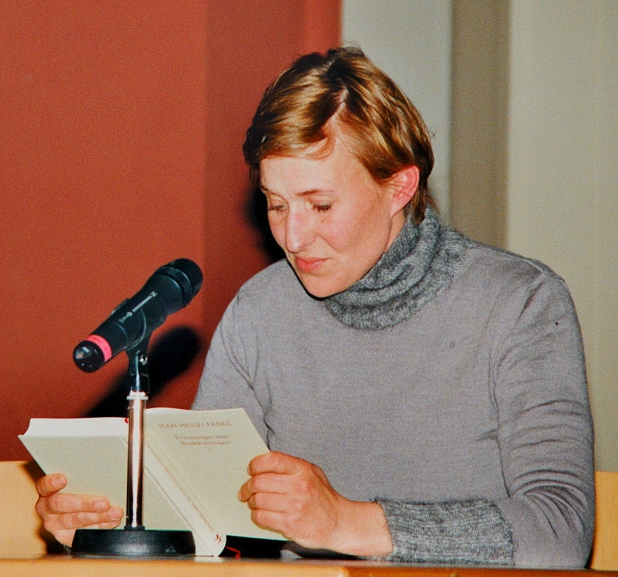 German actress Meike Schlüter reading at the presentation of volume 1 of the complete german edition of Jean-Henri Fabre's Souvenirs entomologiques [Erinnerungen eines Insektenforschers]at the Museum für Naturkunde (Berlin) in Berlin-Mitte, Germany.